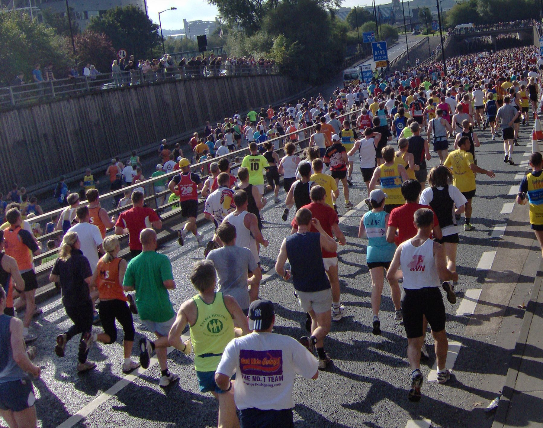 just before the one mile marker